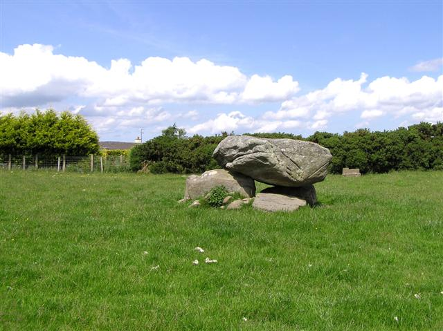 The rocking stone, Killynaght. Located to the west of Artigarvan.